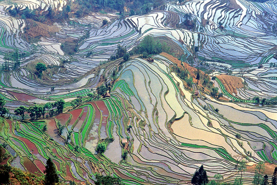 Terrace rice fields in Yunnan Province, China